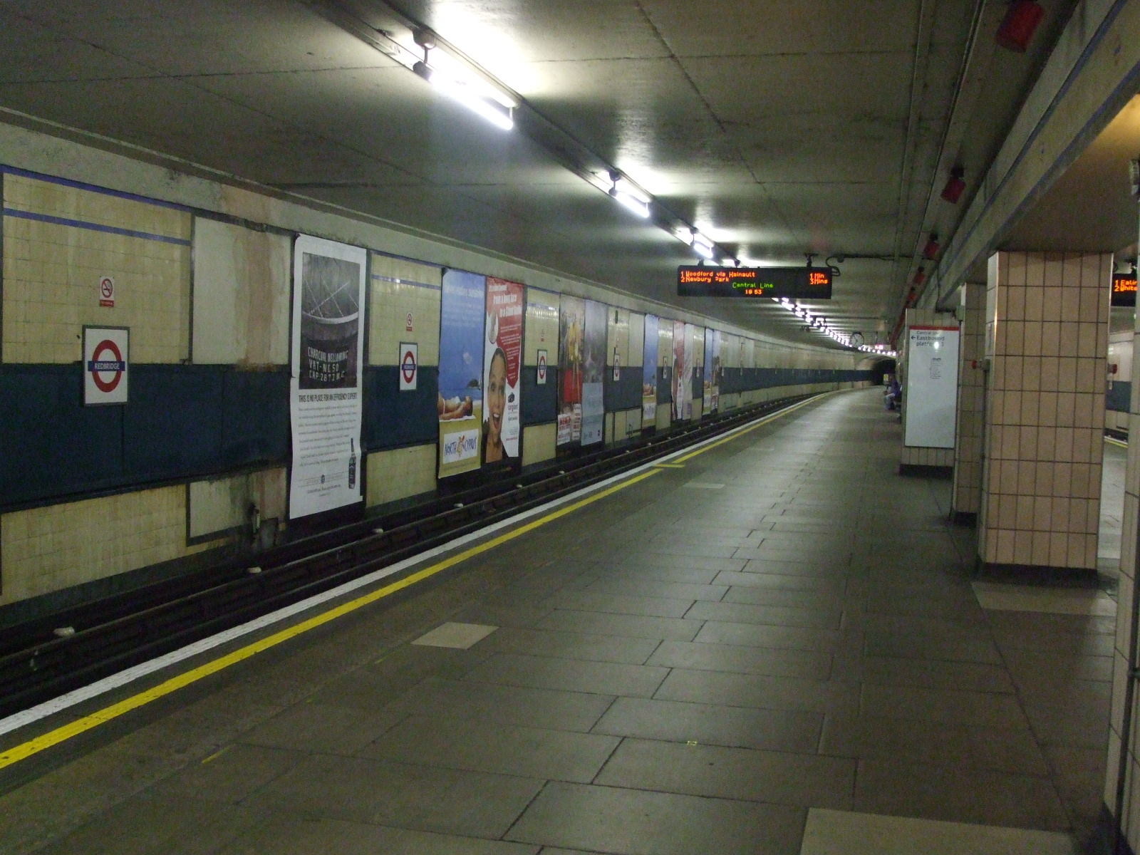 Redbridge tube station eastbound platform face looking east